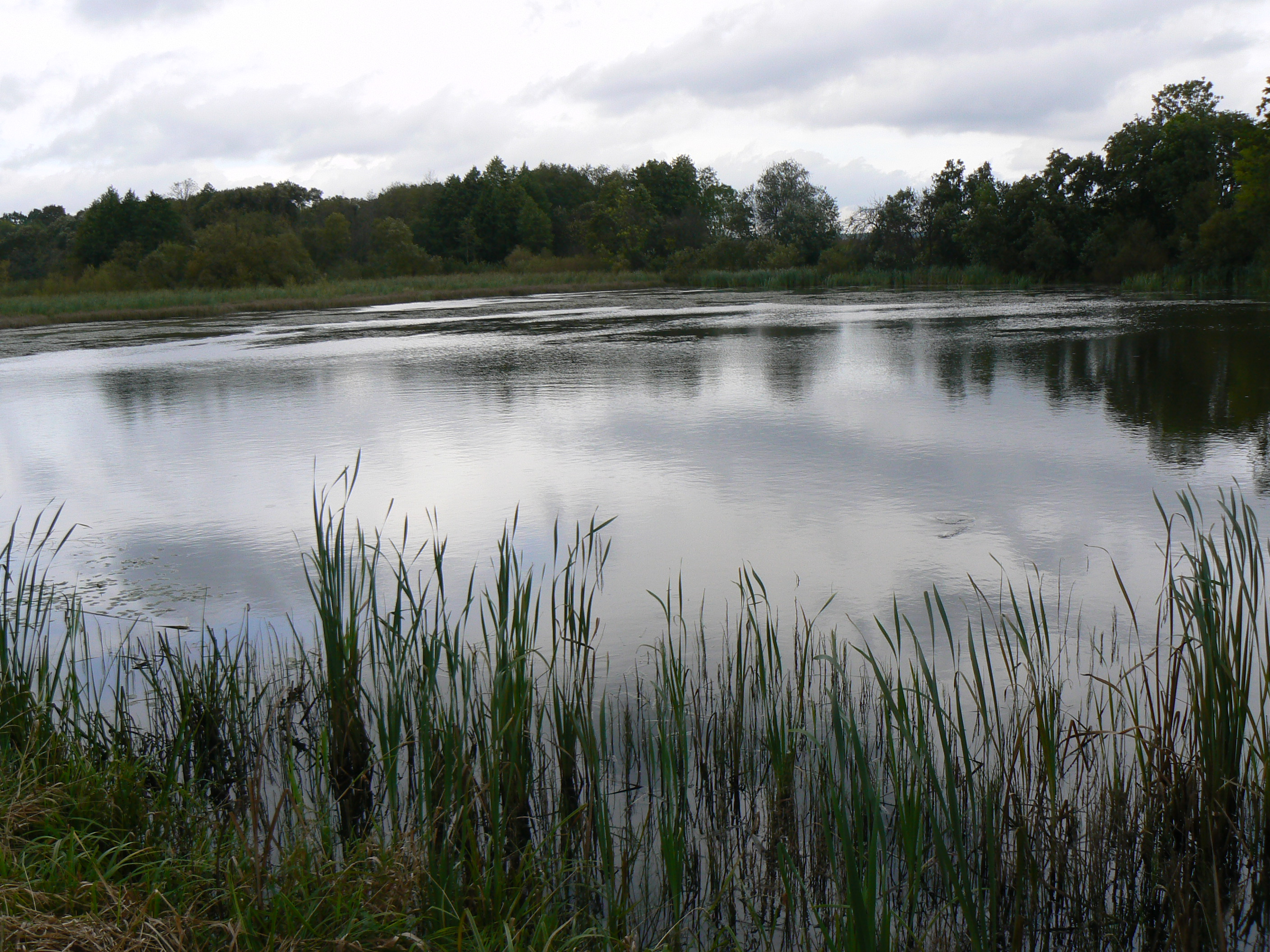 Pond on rivulet Karapolis/Malūndaubė in village Karapolis